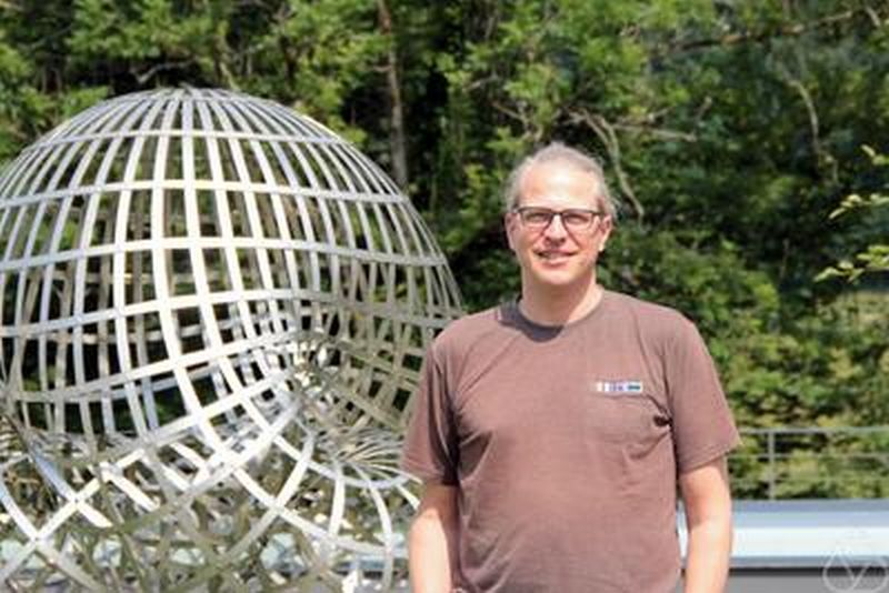 Jakob Stix, Oberwolfach 2018